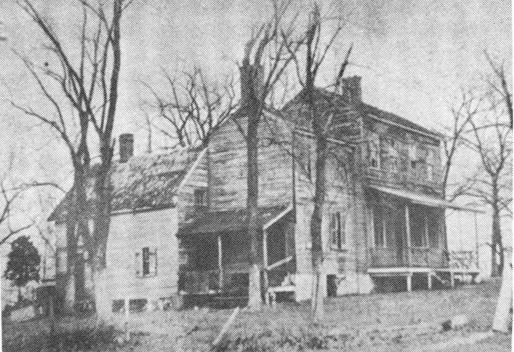 Collingwood mansion in Fort Hunt, Virginia circa 1890